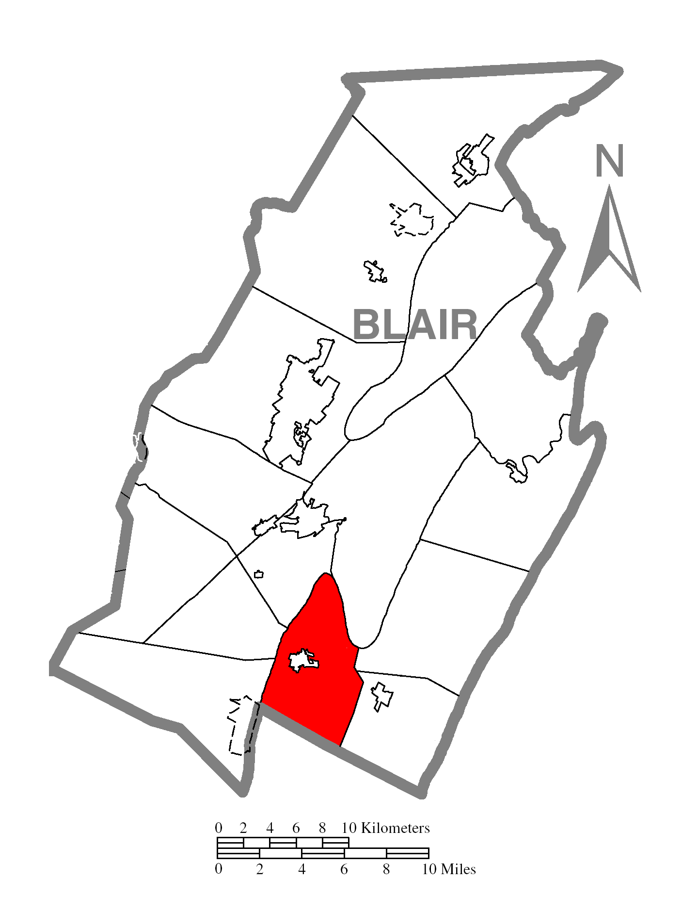 A map of Blair County showing Taylor Township, Pennsylvania (alternate) highlighted on the map.